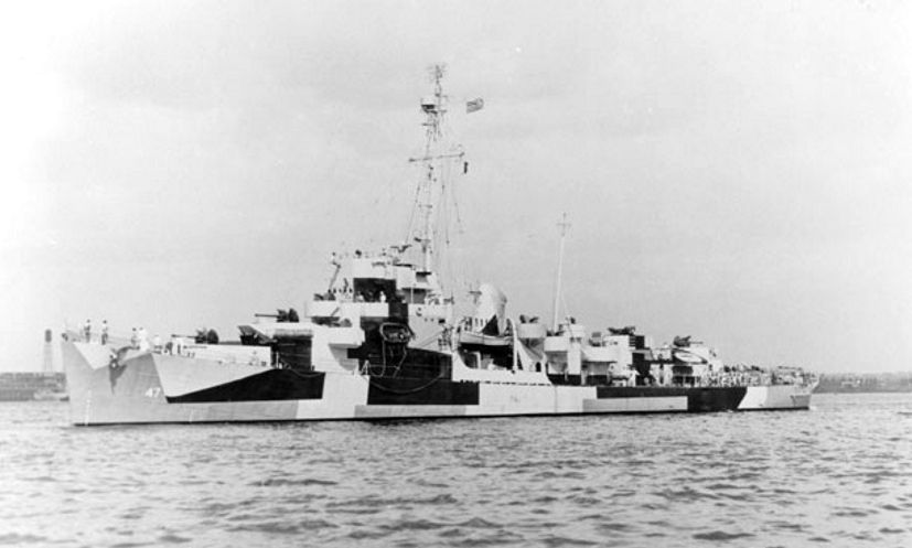 The U.S. Navy destroyer escort USS Decker (DE-47) off the Boston Naval Shipyard, Massachusetts (USA), on 30 August 1944. She is painted in Camouflage Measure 31, Design 3D.